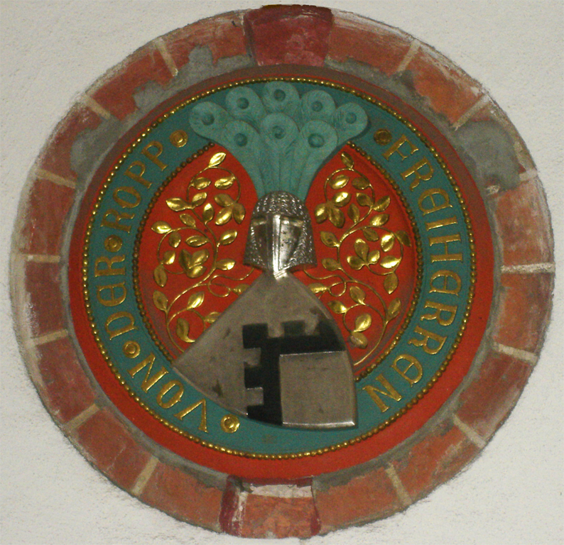 Wappen derer von der Ropp im Nordportal des Doms zu Riga, coat of arms of the family von der Ropp in the north portal of the Riga Cathedral